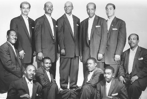 Conjunto Chappottín, promotional photo taken in Cuba in the 1950s.